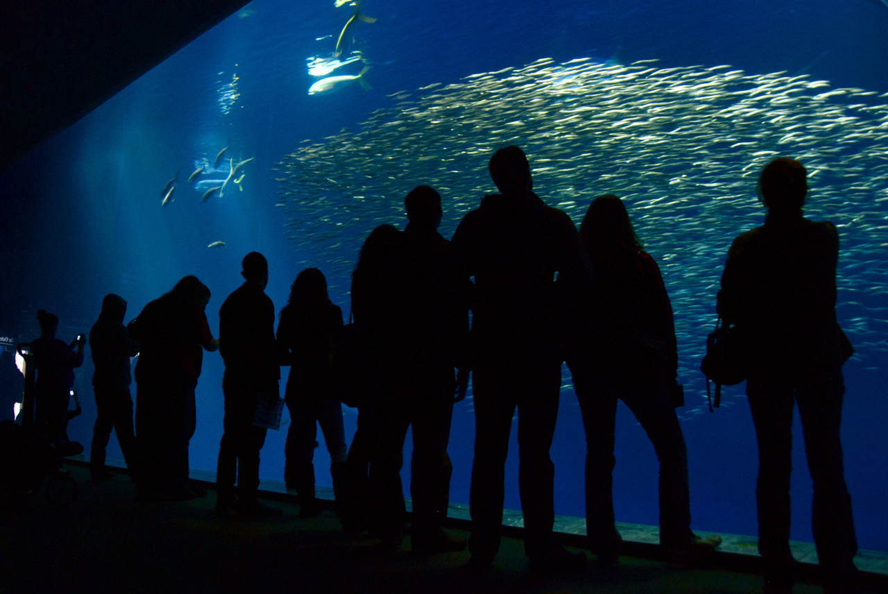 Interior shot of Monterey Bay Aquarium